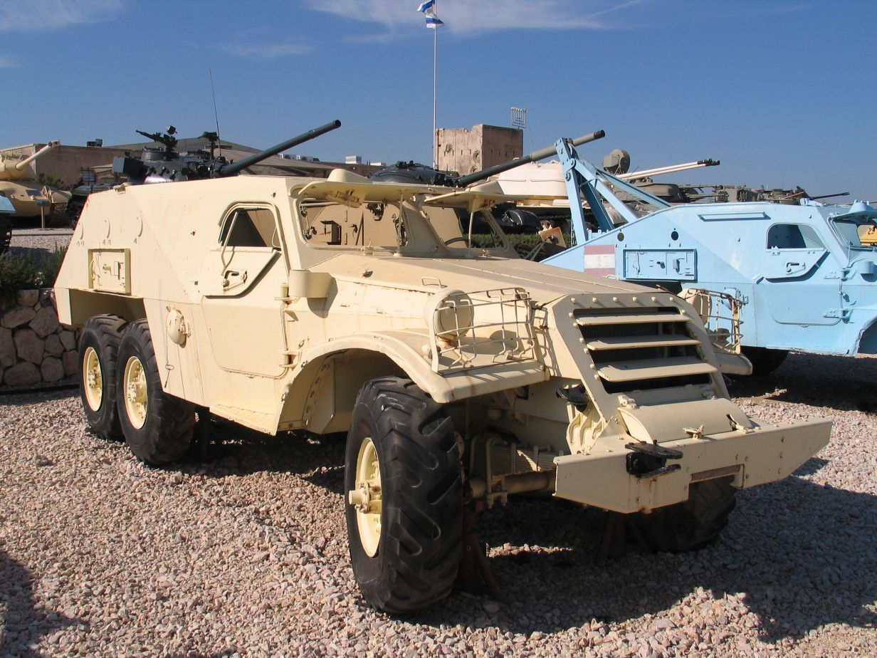 Description: BTR-152 APC in Yad la-Shiryon Museum, Israel. 2005. Source: Photo by me, User:Bukvoed